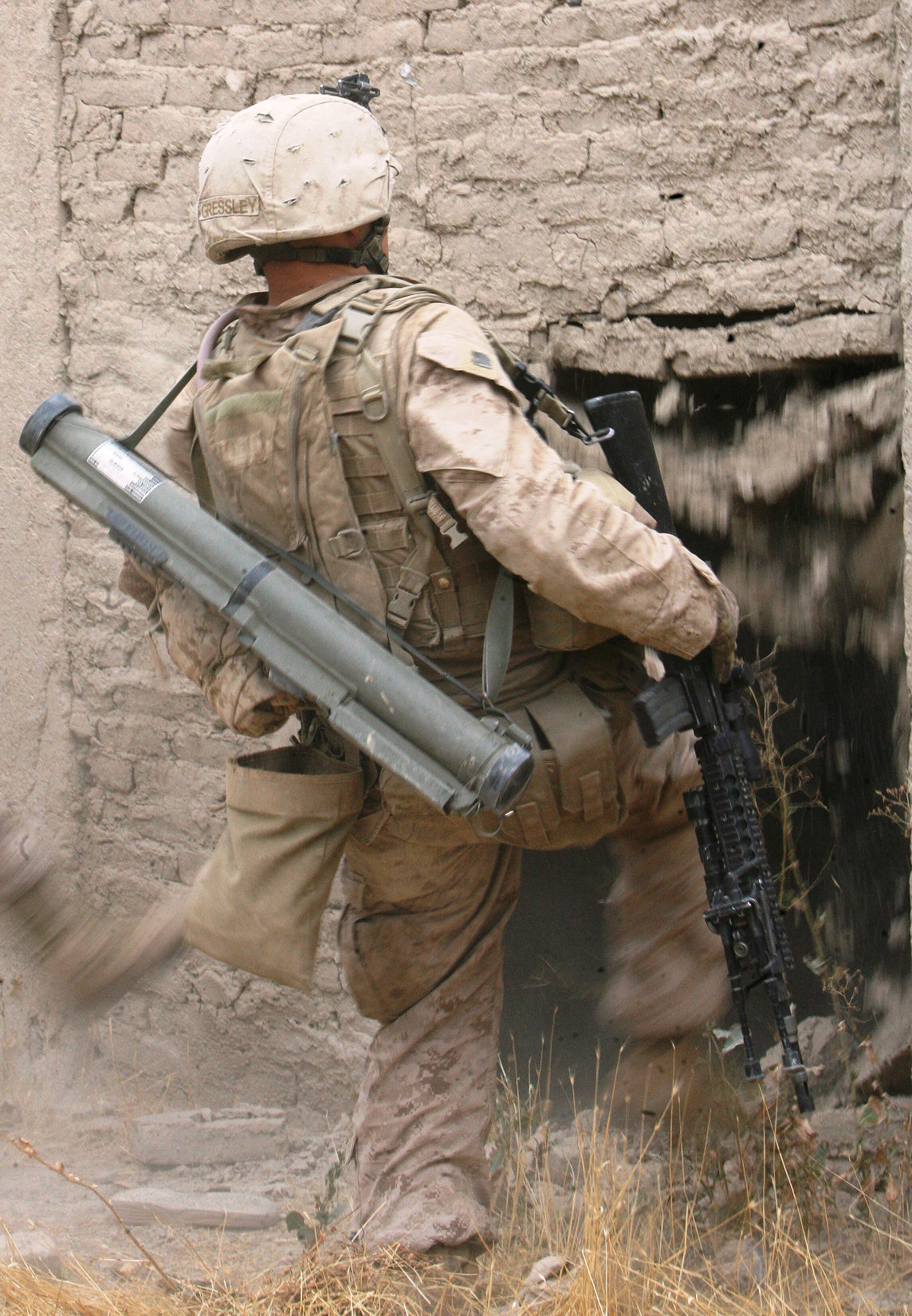 Lance Cpl. David D. Gressley, a team leader with Lima Company, 3rd Battalion, 4th Marine Regiment, kicks in a wall while searching a compound in the area of Now Zad, Afghanistan, known as “The Greens,” Dec. 8. The Marines cleared the area as part of Operation Cobra’s Anger, to wrest control of the area away from Taliban fighters in the Now Zad region.